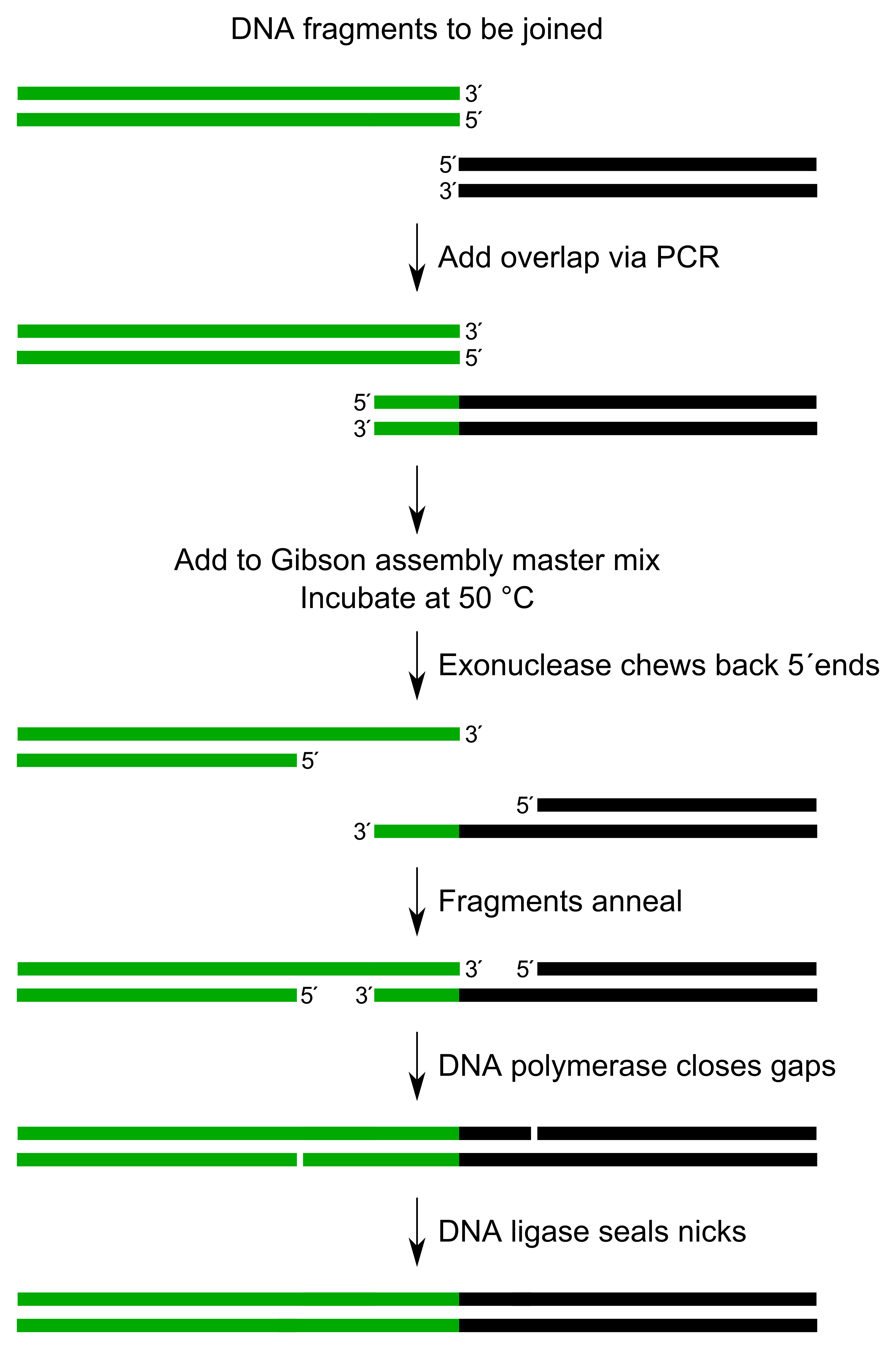 Illustration of Gibson assembly.